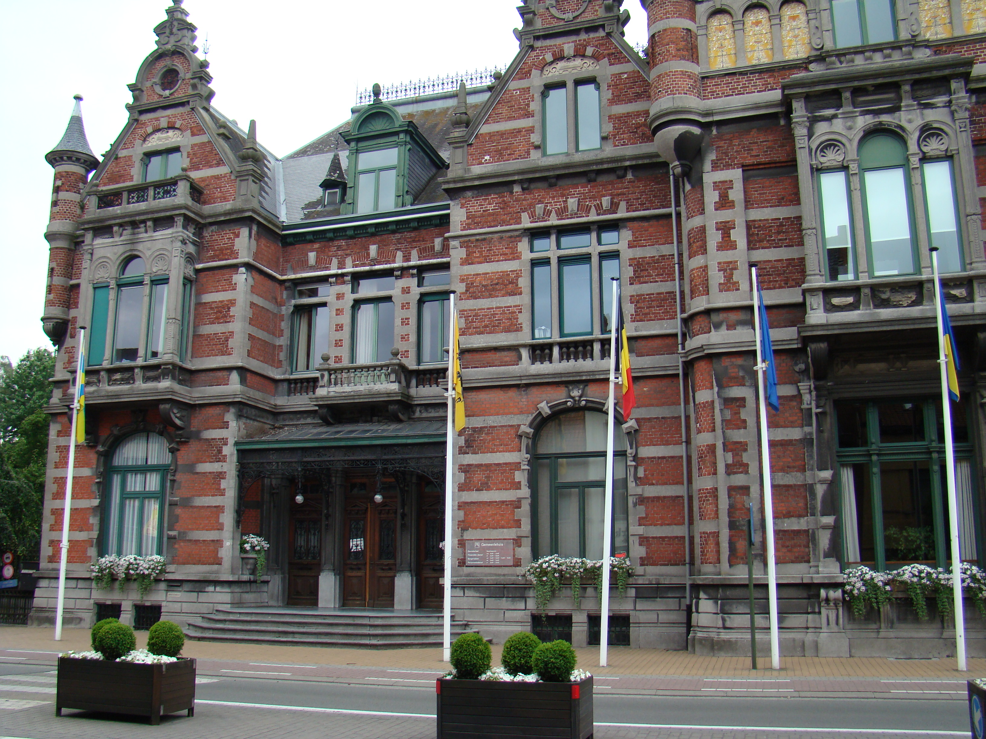 Wevelgem (West Flanders, Belgium)